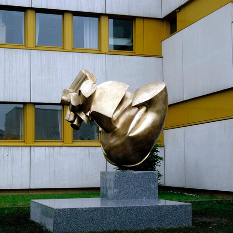 EG_Neustifter01